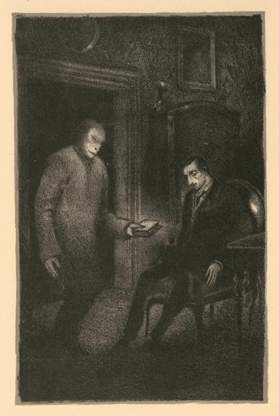 illustration for Gustav Meyrink "Golem" made ​​by Hugo Steiner